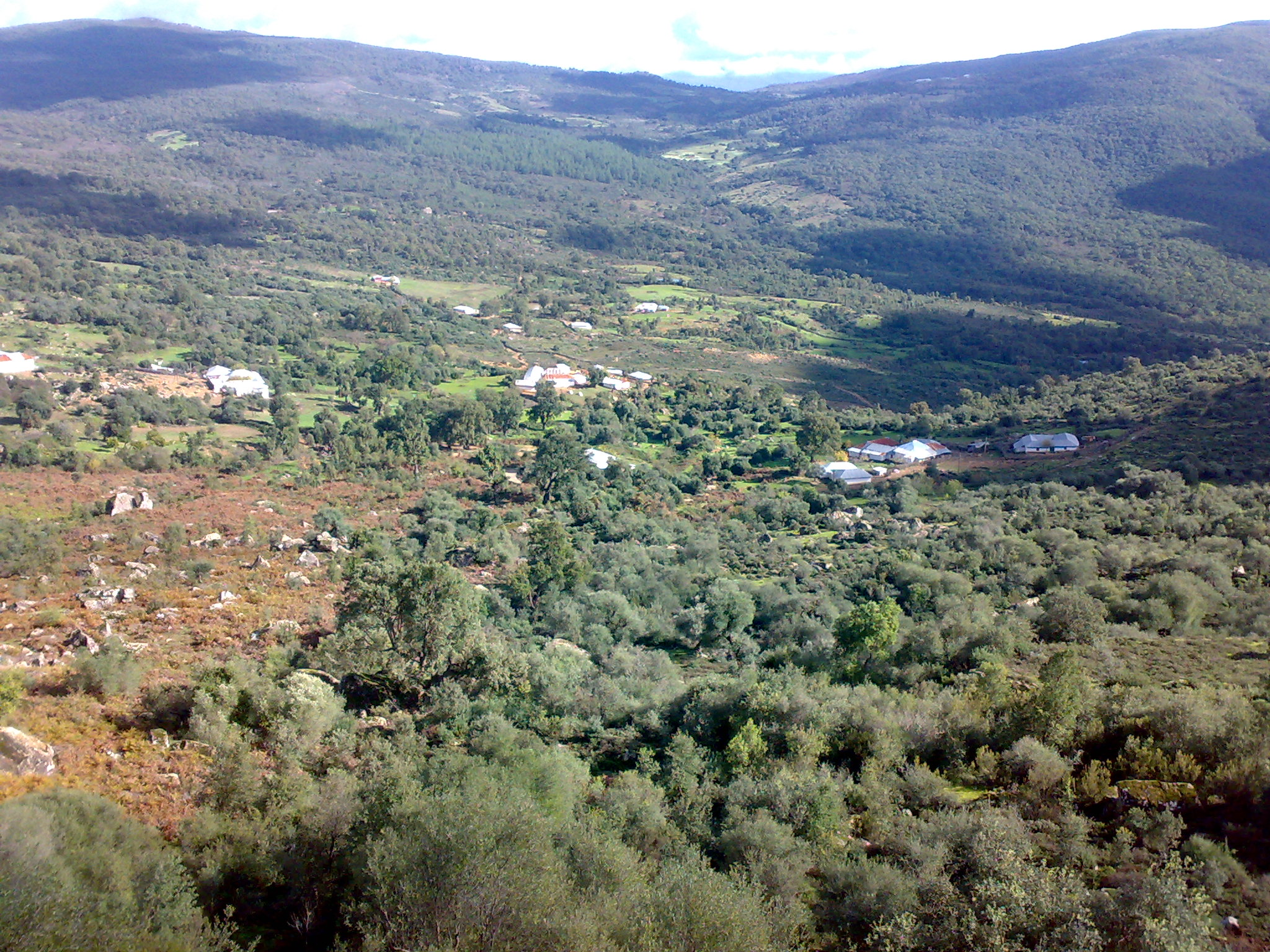 الحجر دار الراطي